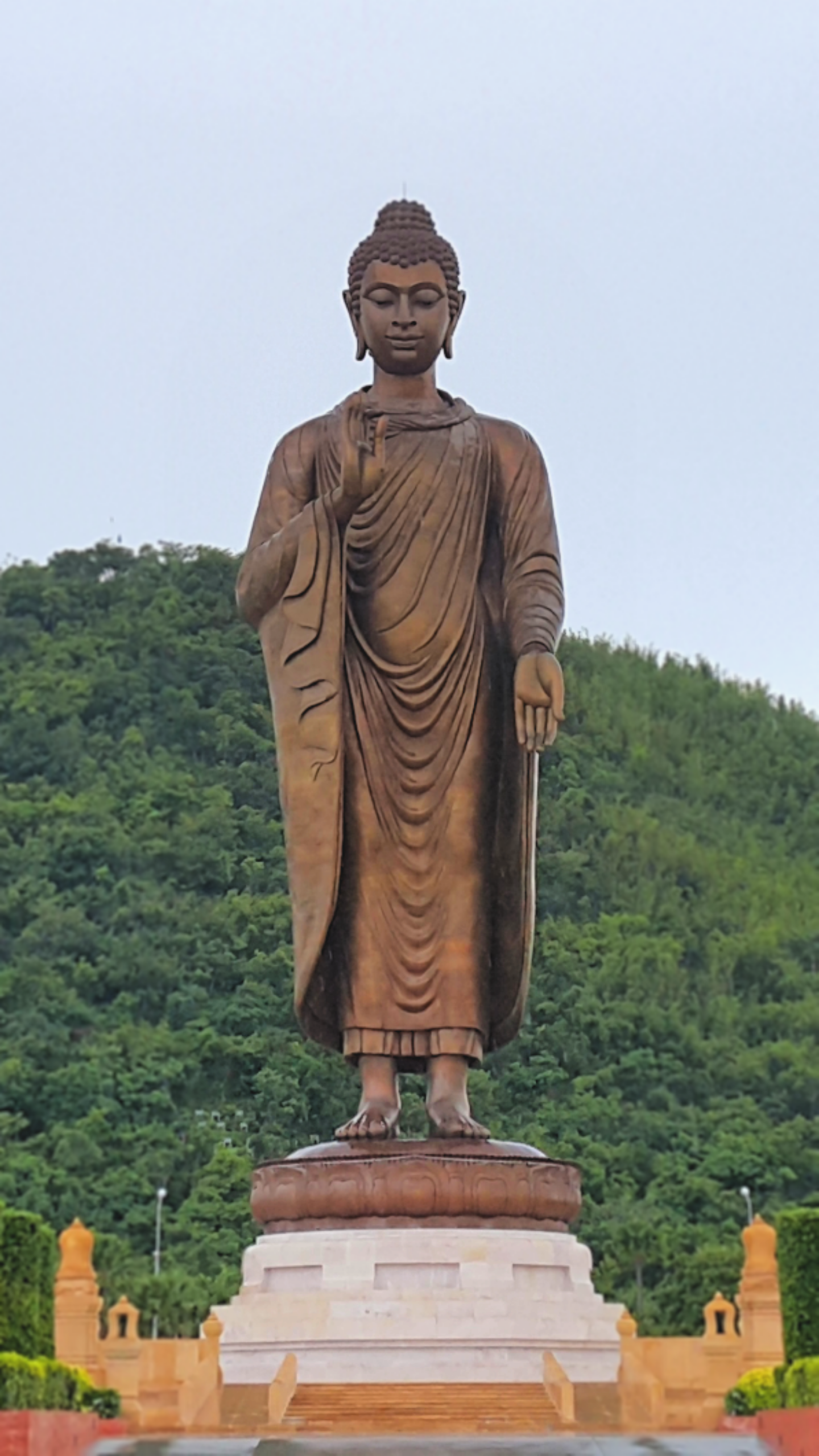 Big Buddha in Kanchanaburi Thailand